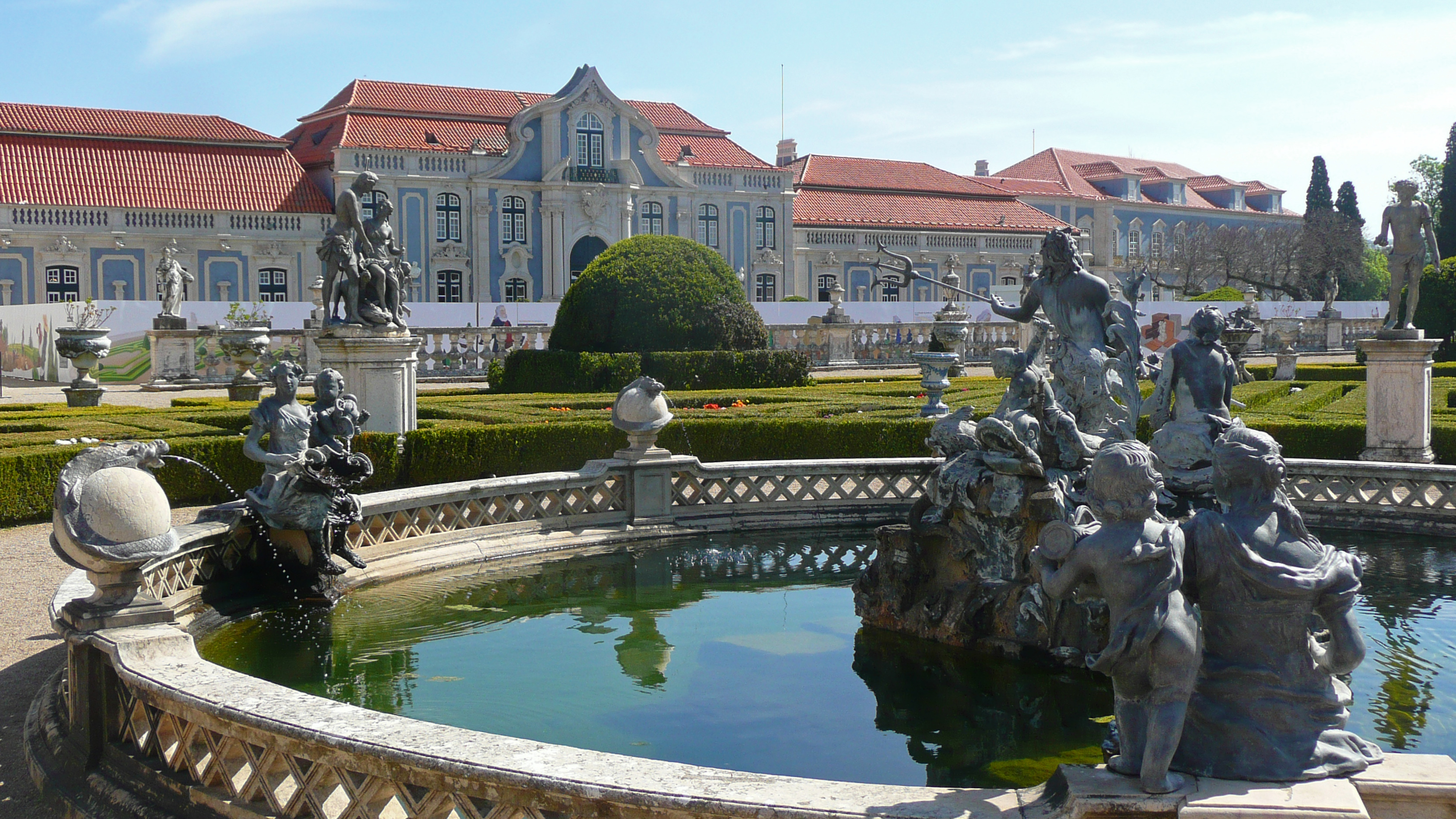 Palácio Nacional de Queluz, fountain and ballroom wing